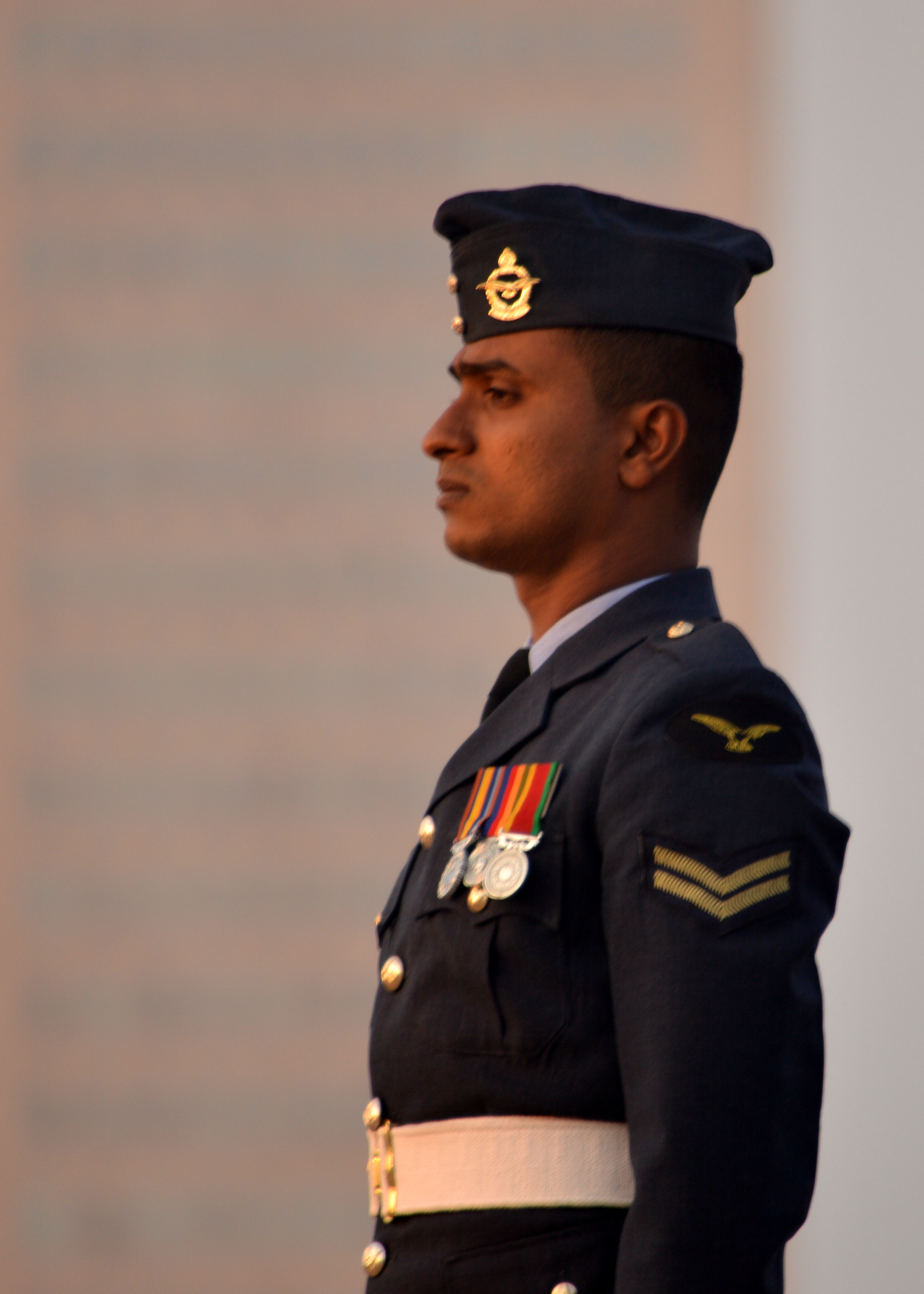 Sri Lankan Air force soldier at Galle face, Colombo, Sri Lanka